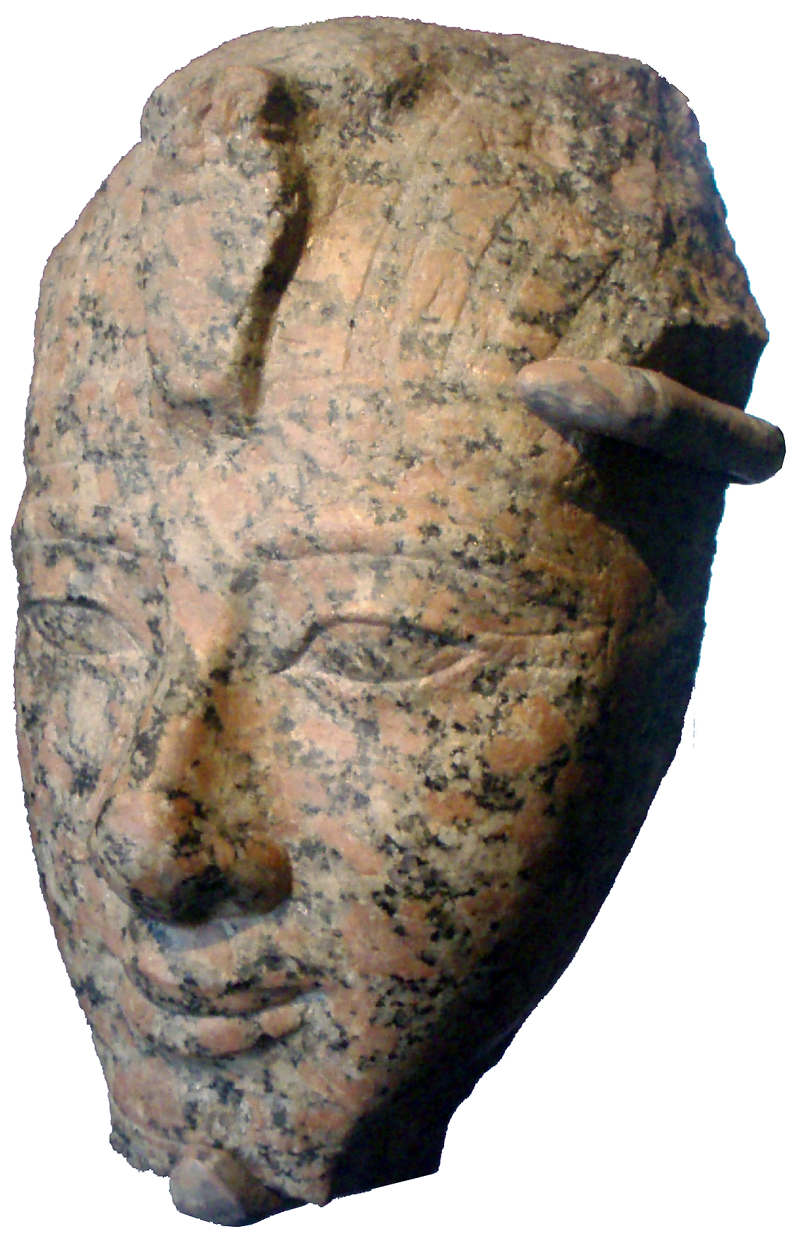 Statue head of Amenhotep II.